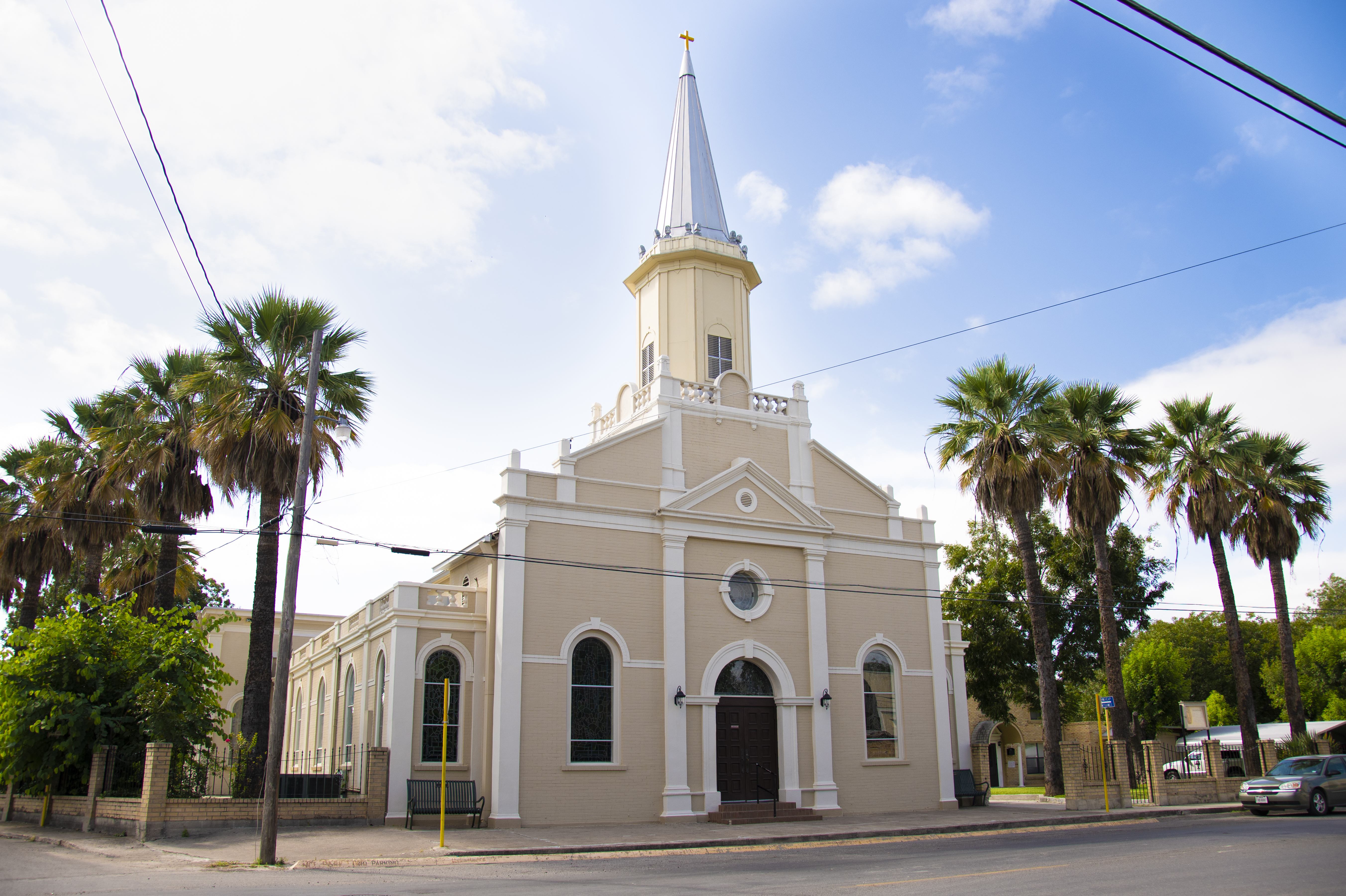 Guadalupe Church - San Felipe